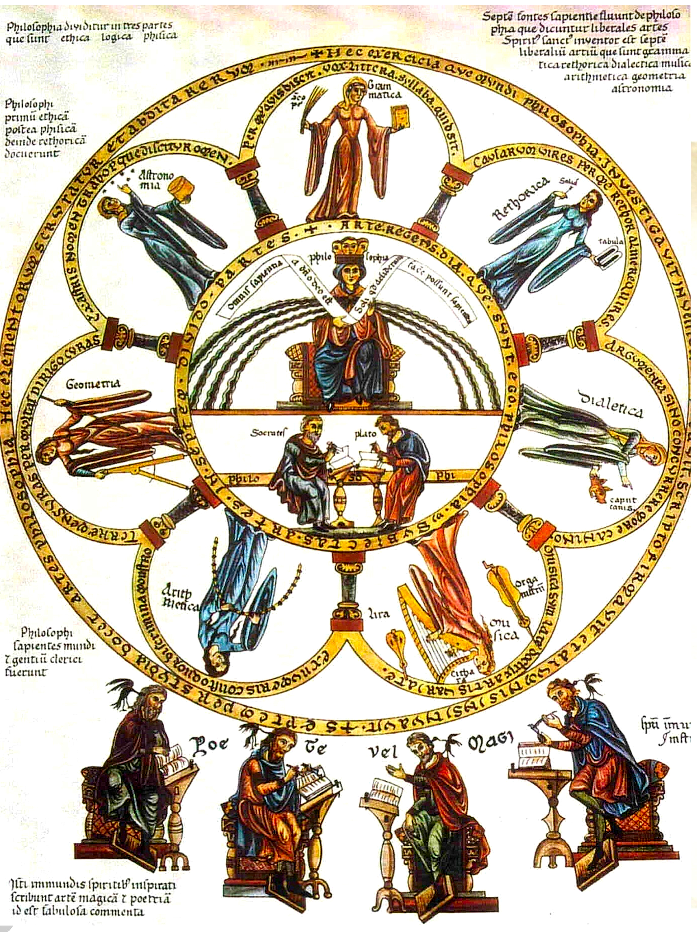 Septem artes liberales from "Hortus deliciarum" of Herrad von Landsberg (about 1180)